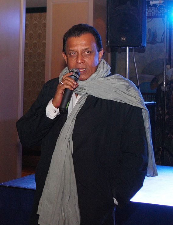 Otabek Mahkamov and Mithun Chakraborty